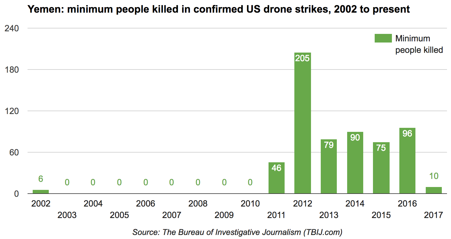 A graph of the average casualties caused by US drone strikes in Yemen